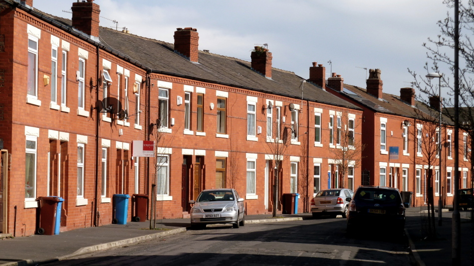 Edith Avenue in Moss Side, Manchester